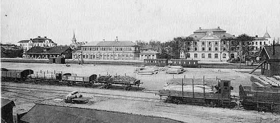 Katrineholms railway station around 1916, the station building is seen to the left in the picture. To the right of this is the railway hotel. Rails to the left lead towards Gothenburg and Norrköping. Photo from an old postcards.